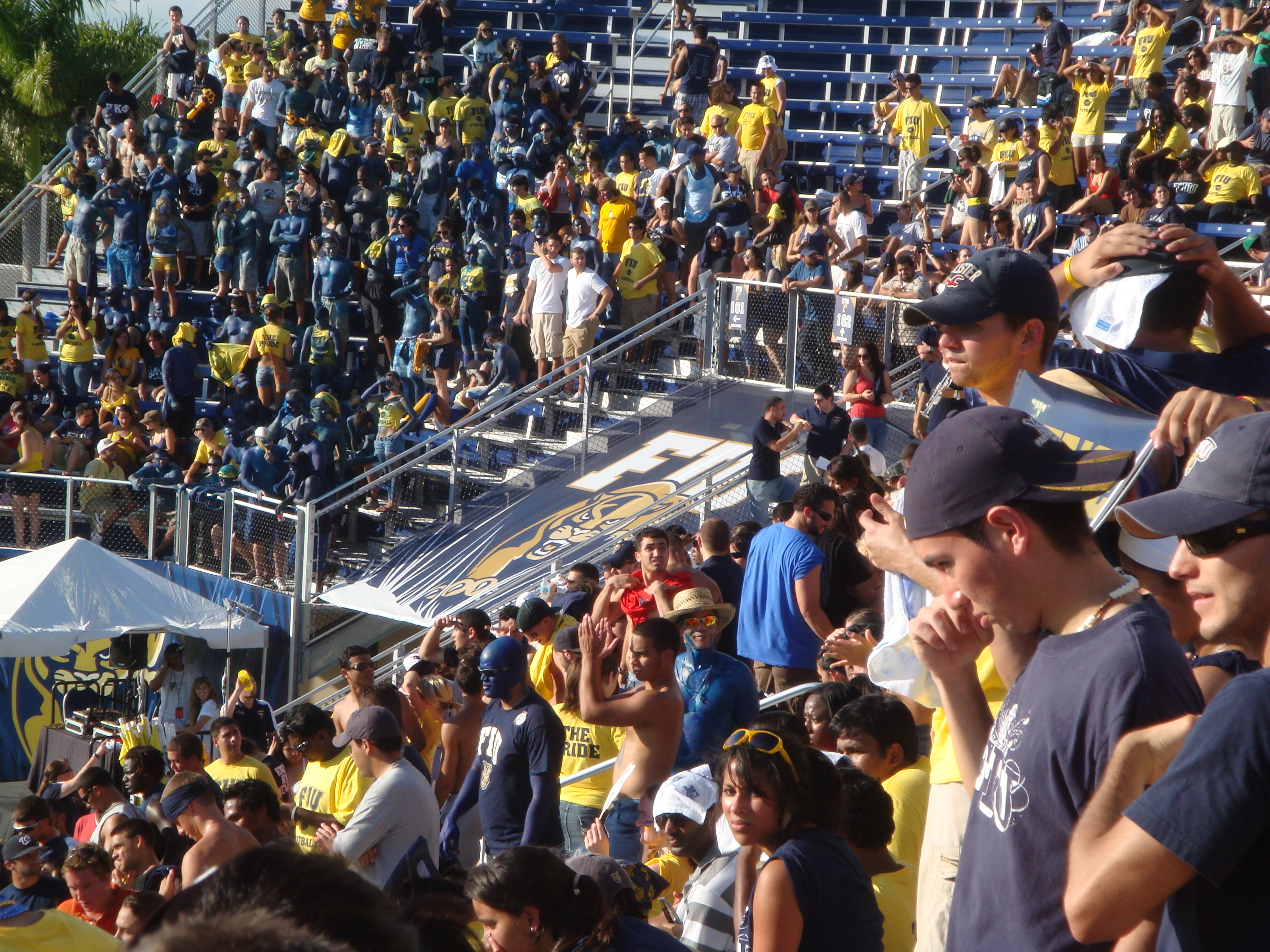 FIU Stadium during the 2008 new stadium inaugural game versus the University of South Florida.